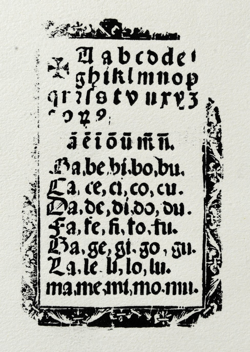 Barcelona (Biblioteca de Catalunya), Catalonia: Sherrywooden matrix of a page from a 16th century Abecedary